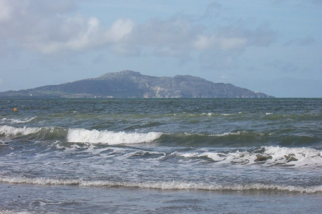 North Tip of Holy Island. Rocky outcrop of the north tip of Holy Island as viewed from Porth Swtan - August 2004